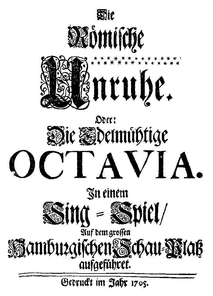 Reinhard Keiser - Octavia - titlepage of the libretto